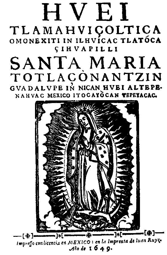 First page of the Huei tlamahuiçoltica, a religious tract originally published in 1649.